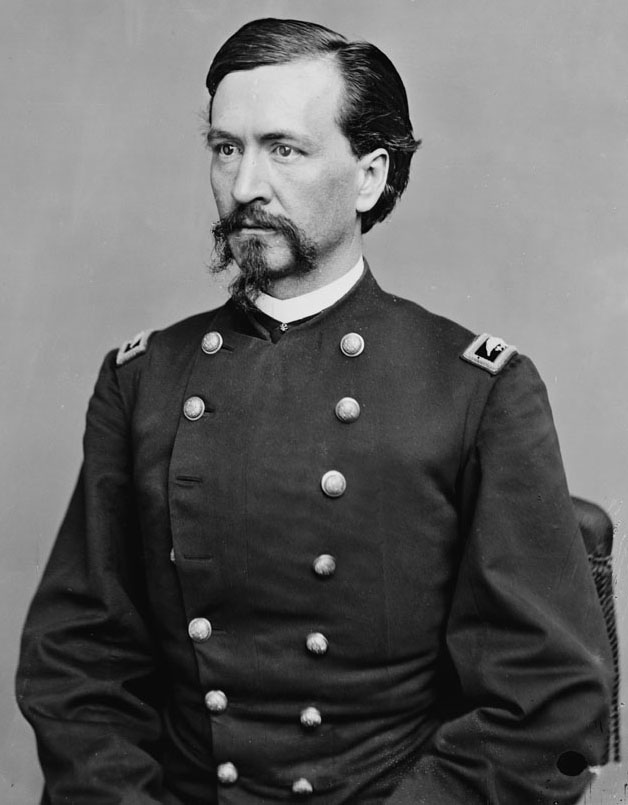 B.Gen. Henry Lawrence Burnett, USA (1838-1916)